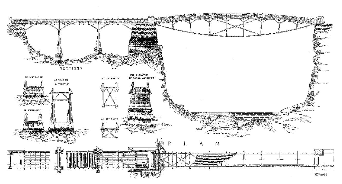 Orthographic views for the bridge over the Grand Falls of the Saint John River in New Brunswick, Canada. The lenticular bridge was designed by Joseph Tomlinson III and built by the New Brunswick Board of Public Works. The bridge collapsed just 17 days after its completion due to defective iron becoming brittle in cold weather.